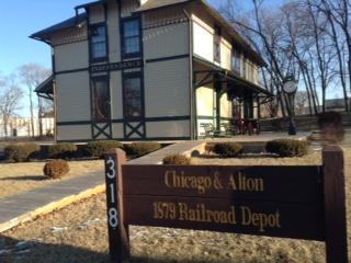 Chicago & Alton Railroad Depot, Independence, Missouri